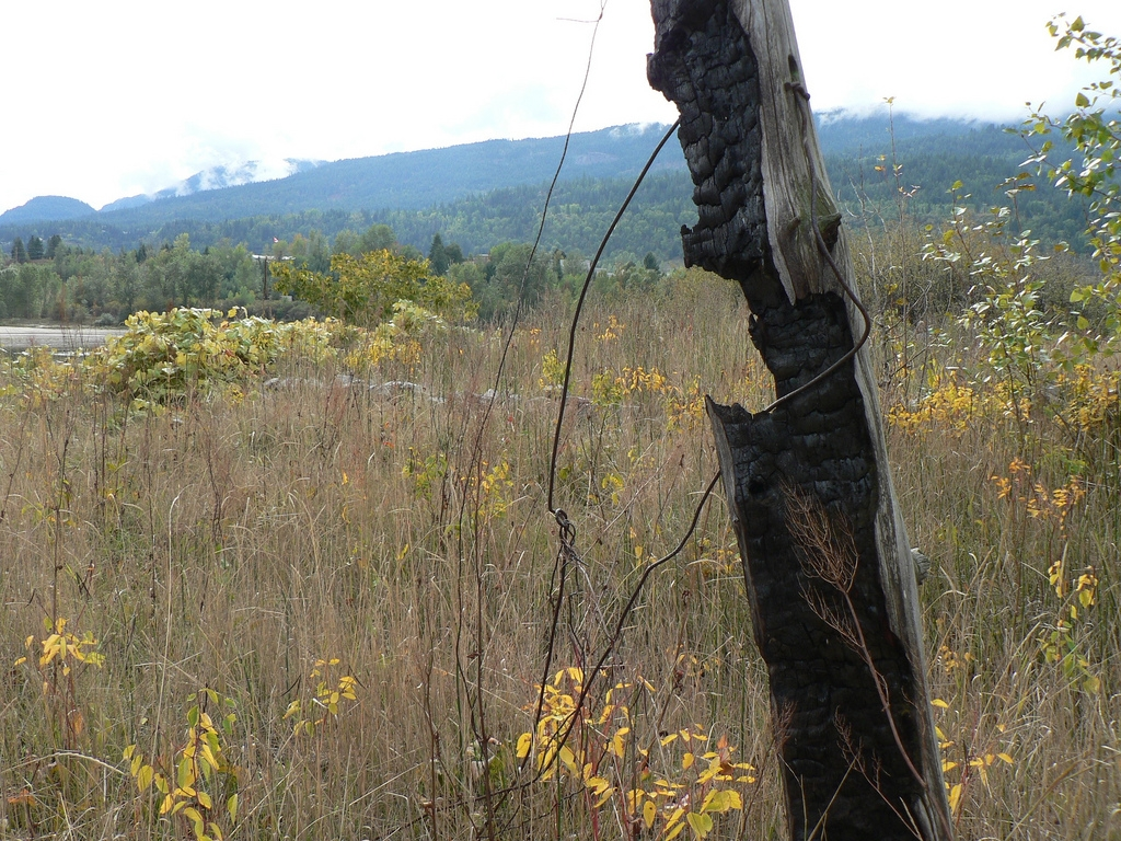 The Alex Christian family and ancestors made their home here at kp'itl'els (Brilliant, BC) at the confluence of the Columbia River (Swa-net-ka) and the Kootenay River from time immemorial until 1919, when their land was taken from them by the government and reallocated to settlers. Bernie Whitebear, Luana Reyes Lawney Reyes and their other siblings are descendants of Alex Christian.